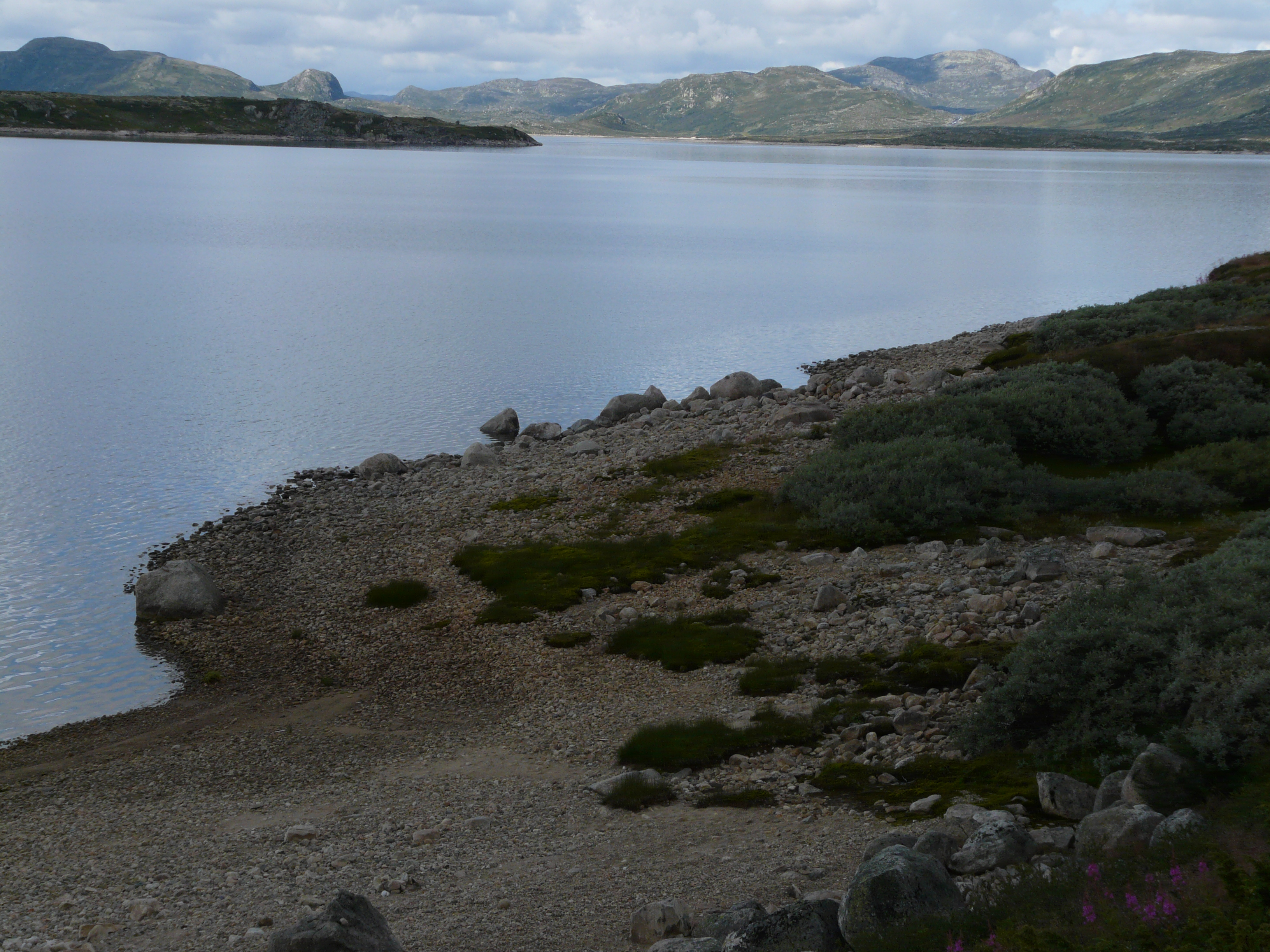 Kalhovdfjord